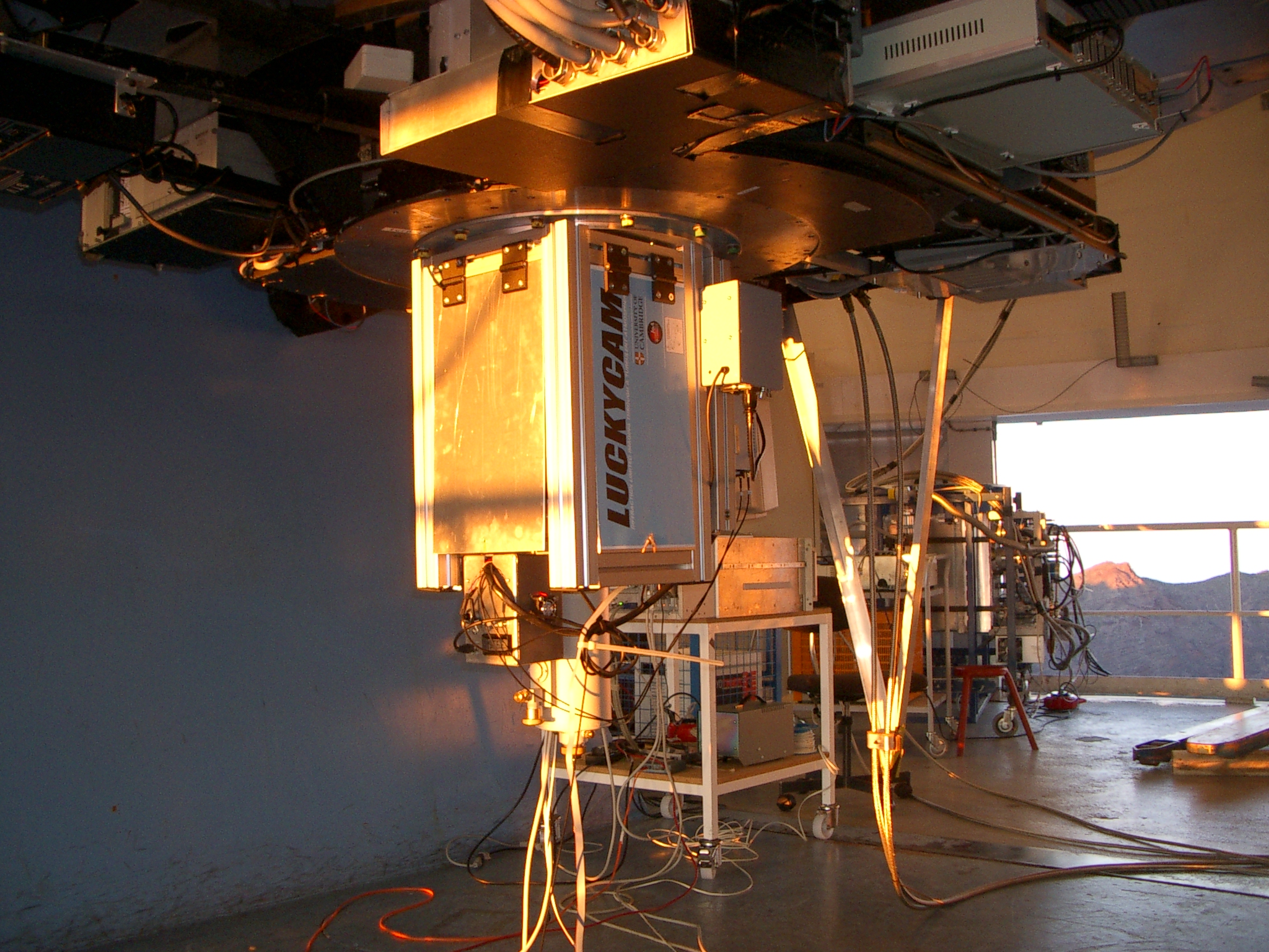 The LuckyCam instrument attached to the Cassegrain focus of the Nordic Optical Telescope.